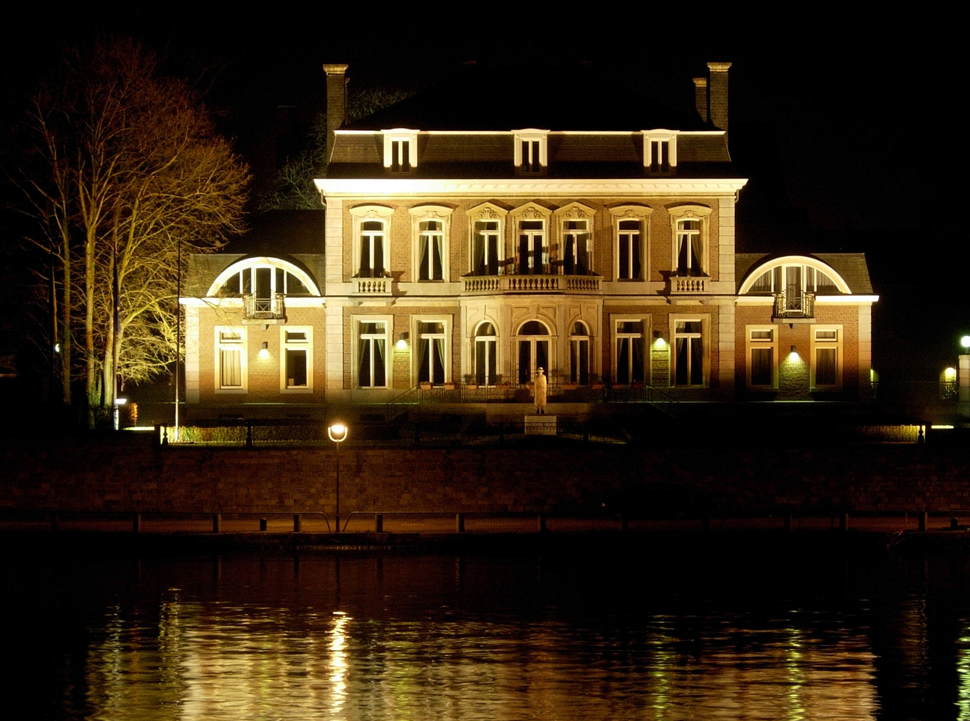 Elysette Namur, Belgium, by night